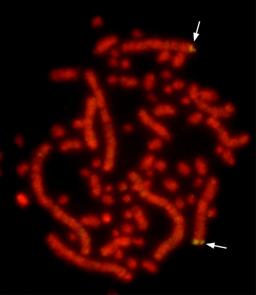 Chicken metaphase chromosomes. Typical for birds are the microchromosomes which are much smaller than the macrochromosomes. On this preparation, a gene locus was detected and chromosomes were counterstained with propidium iodide. Original Figure legend: Chromosomal localization of the chicken β-defensin gene cluster by fluorescence in situ hybridization. The BAC clone TAM31-54I4, which harbors 11 Gal genes, was mapped to chicken chromosome 3q3.5-q3.7. Arrows indicate the hybridization signals.